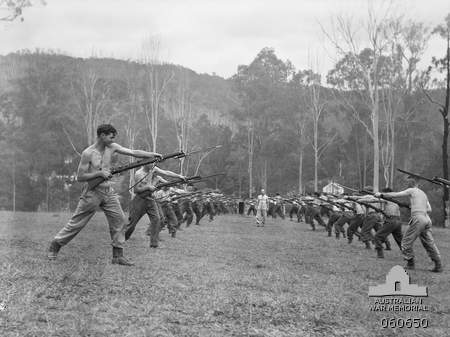 Australian Army troops training at the Jungle Training Centre at Canungra, Queensland, 25 November 1943